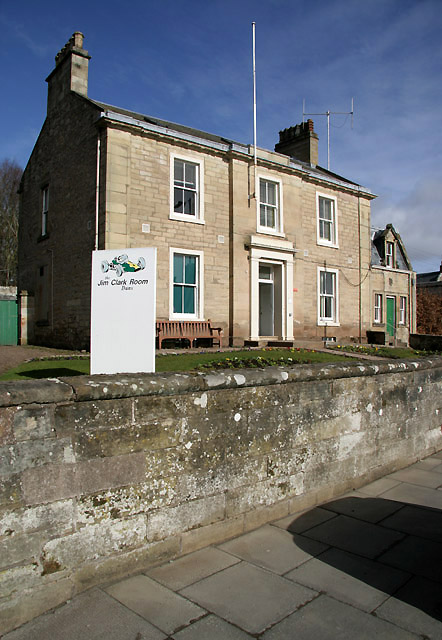 The Jim Clark Room at Duns This museum in Newtown Street is dedicated to the life of Jim Clark, OBE, twice world motor racing champion in the 1960s, whose home town was Duns. It contains a unique collection of trophies and photographs and is open seasonally. When I visited this museum many years ago, one of the recent signatures in the visitor book was that of Ayrton Senna, the late Brazilian three times world motor racing champion.